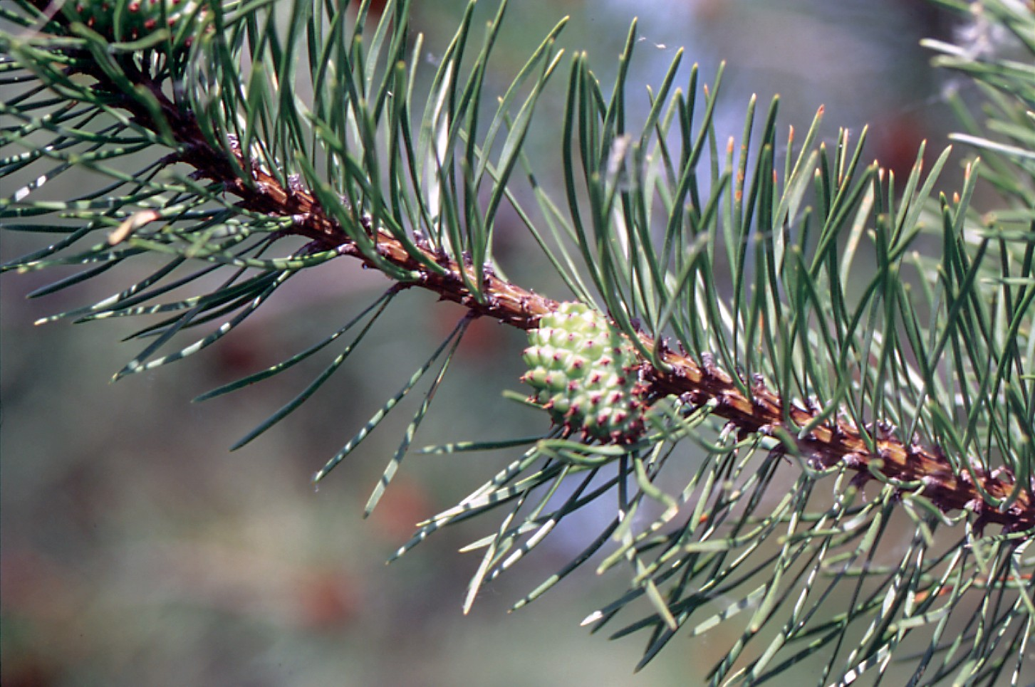 Lodgepole Pine. Branch.